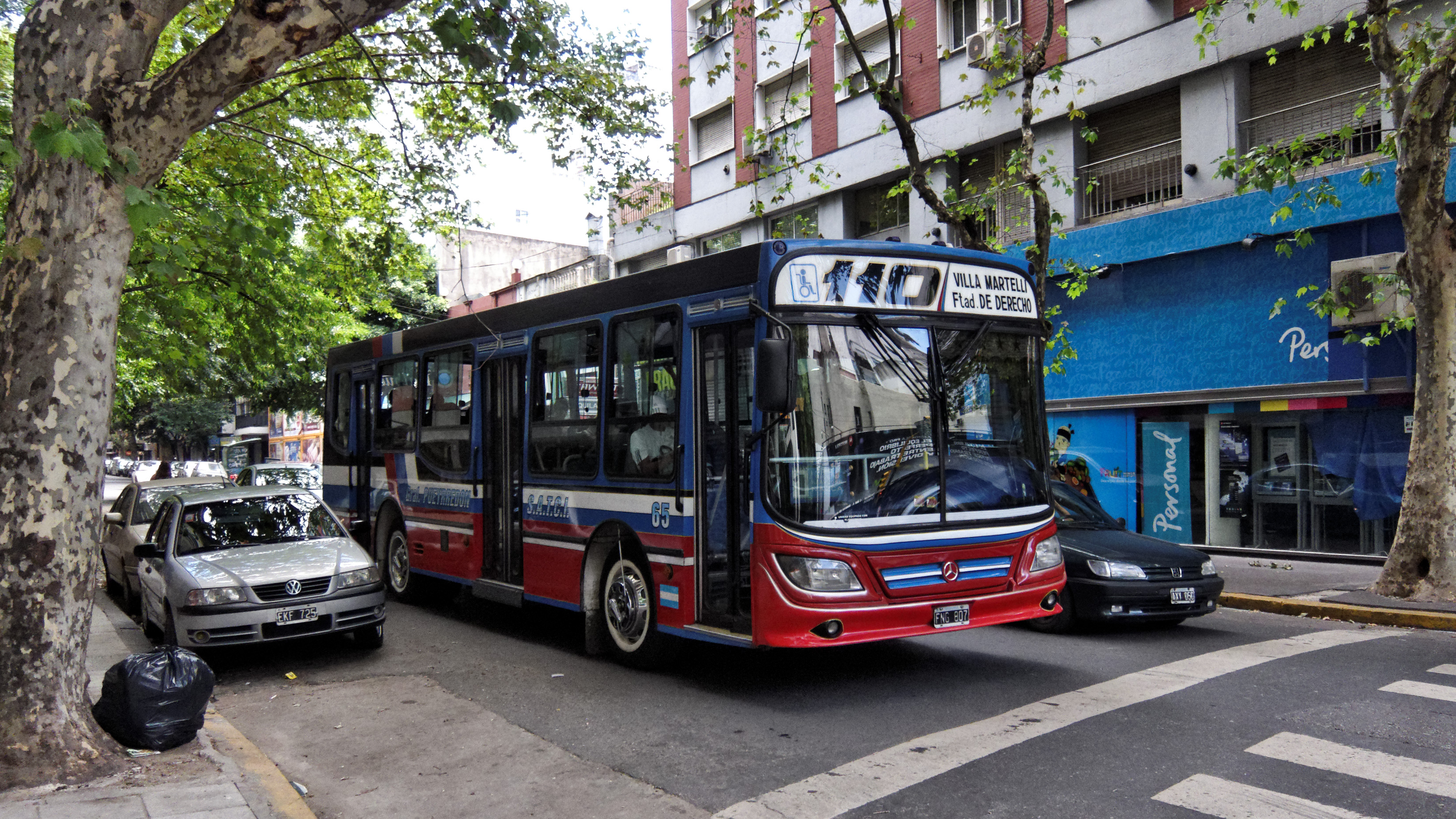 Italbus bus (reg. FNG 807, #65) with Mercedes-Benz chassis in Buenos Aires, Argentina. Colectivo, line 110, General Pueyrredón S.A.T.C.I. operator.